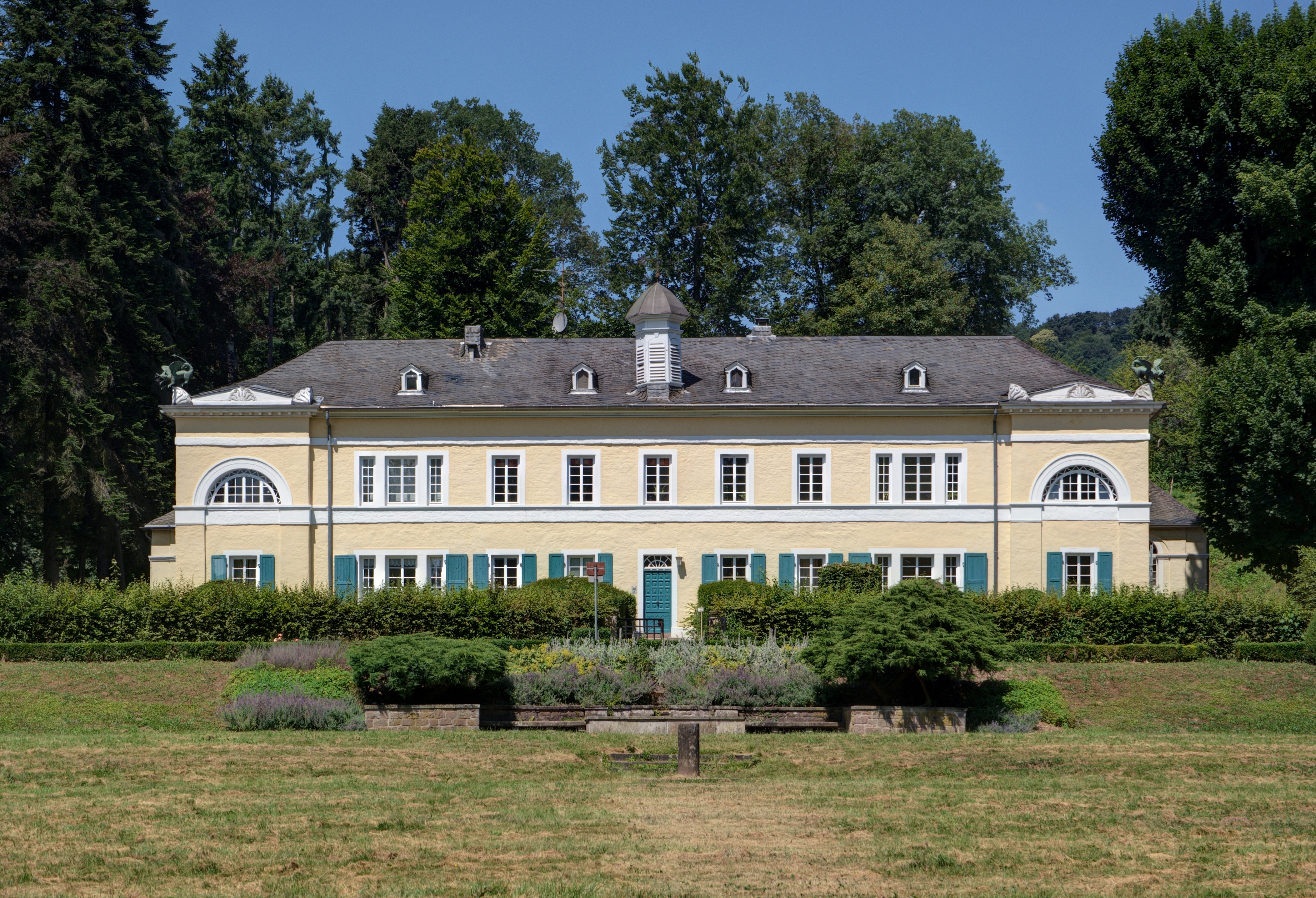 Trier, Stuckradweg 5: so called Drachenhaus (dragon house), built in 1829. The two dragons were added in 1870.